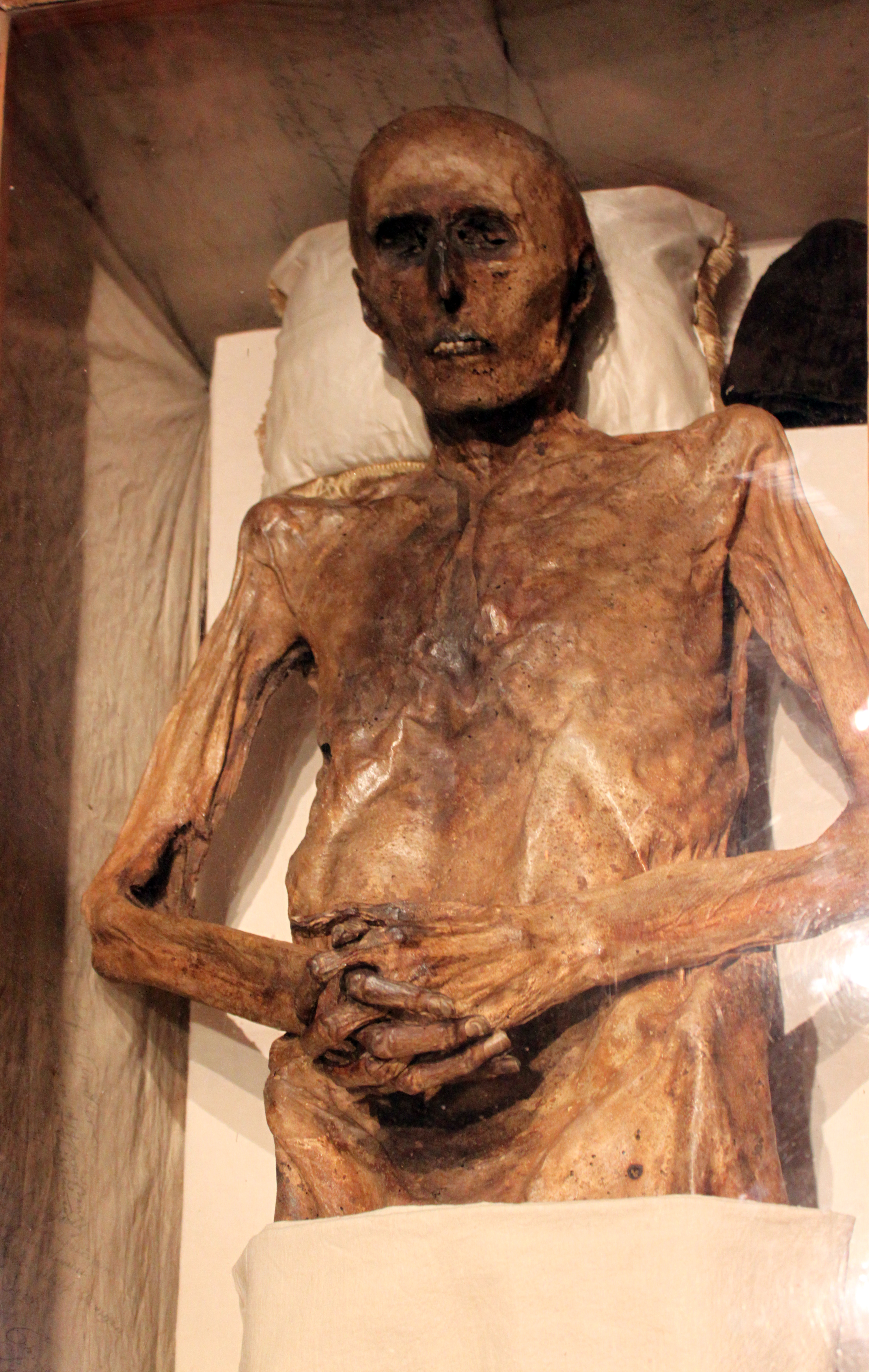 Mummy of Christian Friedrich von Kahlbutz in Kampehl, Brandenburg, Germany